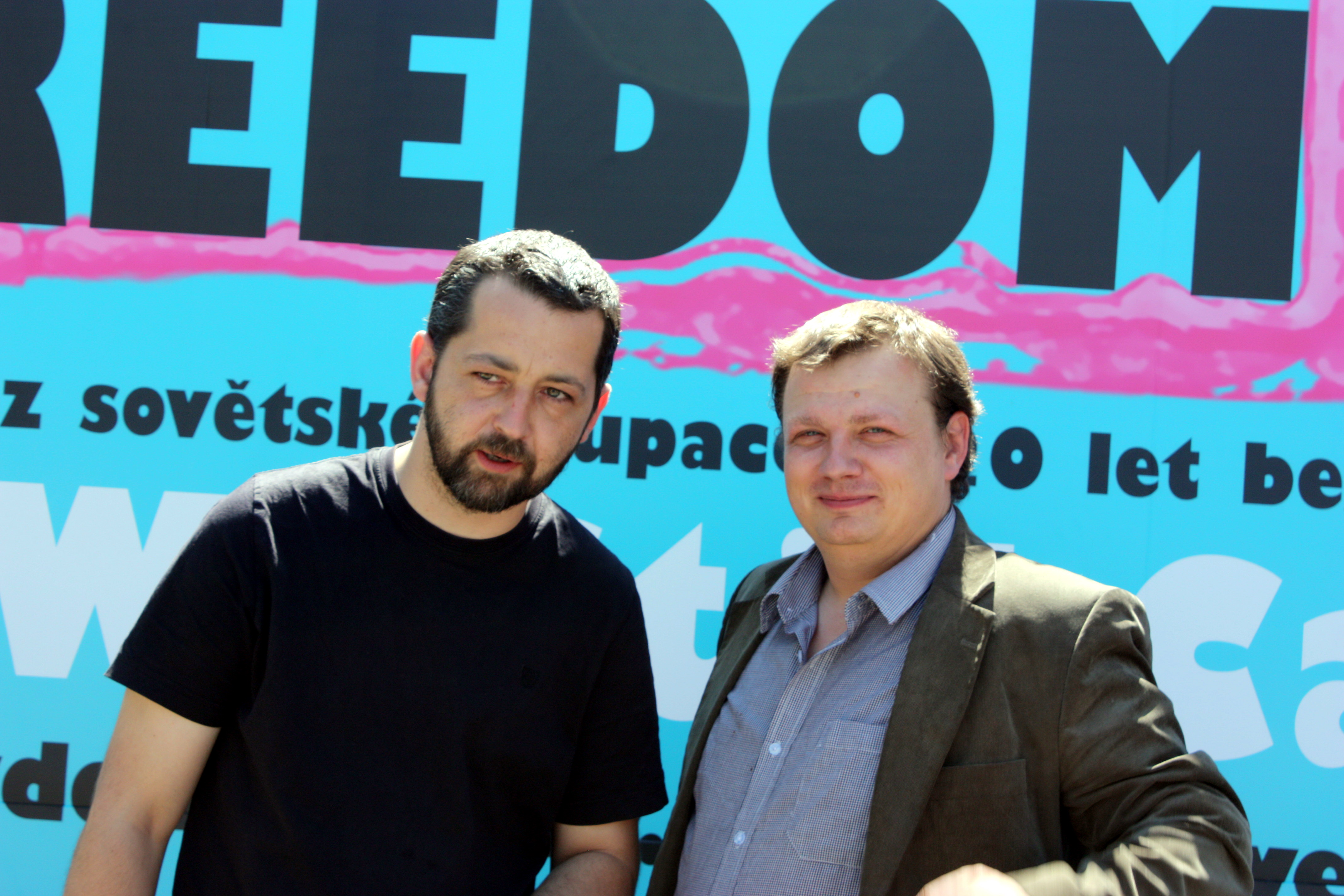 Adam Drda and Mikuláš Kroupa Czech radio journalists and authors of Stories of 20th Century on the Czech Radio.